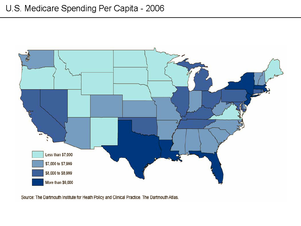 U.S. Medicare spending per capita Explanation Research by The Dartmouth Institute for Health Policy and Clinical Practice in the Dartmouth Atlas showed that in 2006, Medicare spending varied significantly by state. Other research quoted by the CEA Report indicated that up to 30% of Medicare costs could be saved if the middle- and high-cost states spent at the level of the lower-cost states.[1] Bear in mind that this is a Medicare comparison, so all the persons in the population analyzed are over 65. References ↑ White House Council of Economic Advisors (CEA)-The Economic Case for Health Care Reform-June 2009-Page 19